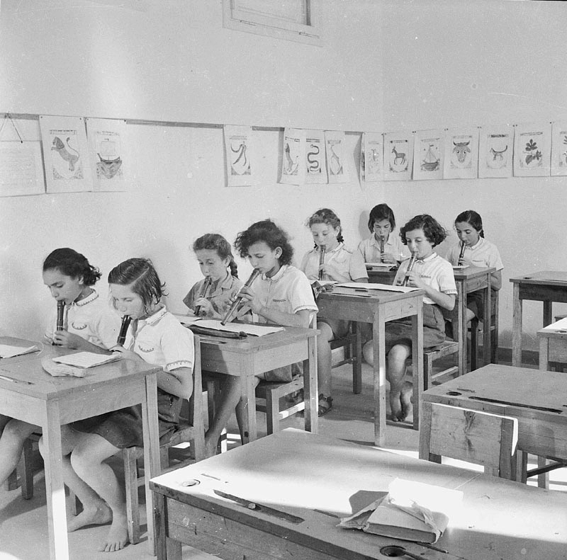 Givat Brenner Children Education, Education in Israel